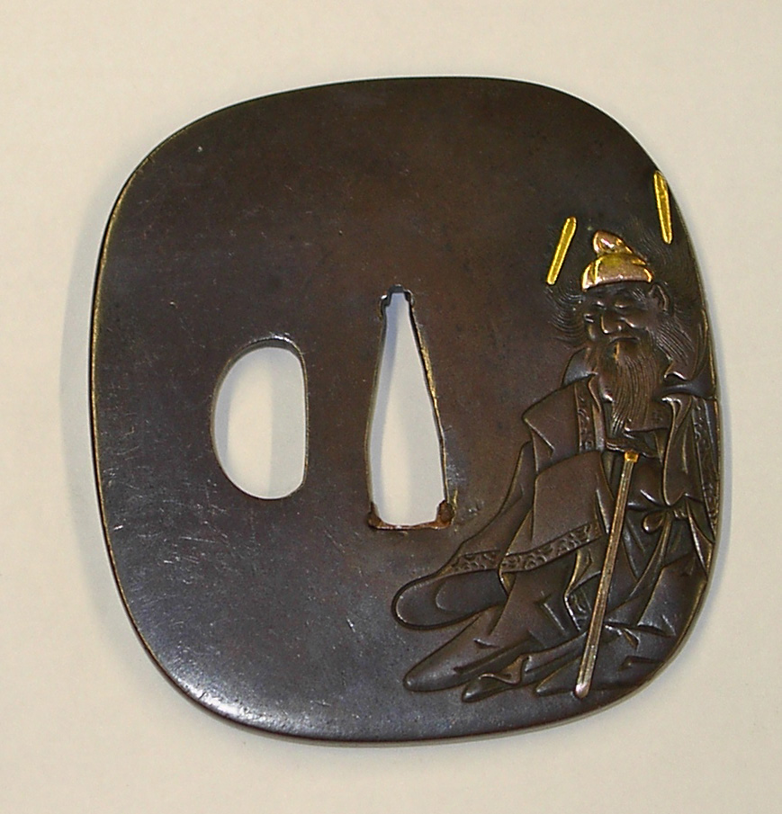 Object Name: Tsuba Object Name: Sword Fitting Object Number: OJ208 Summary: A copper tsuba depicting Shōki (鍾馗) and a demon. Production Place: Japan Description: Copper, nadekaku gata, kaku mimi tsuba in the Hamano Nara Style. The nakago ana has copper sekigane. The design in shishiai bori, literally complexion carving, with gold inlay shows Shoki on the omote (front) and a demon on the ura (back). The mei reads: Otsuryūken Masayuki. Joly confirms that the maker Masayuki is the same person as Shōzui (政随), an important founder member of the Hamano (浜野) branch of the Nara School. Mr. Hara Shinkichi has identified that Shōzui, or Masayuki , also used the names Miboku and Otsuryūken (1695-1769). Dimensions: 7.5cm x 7cm Colour: Brown Gold Link